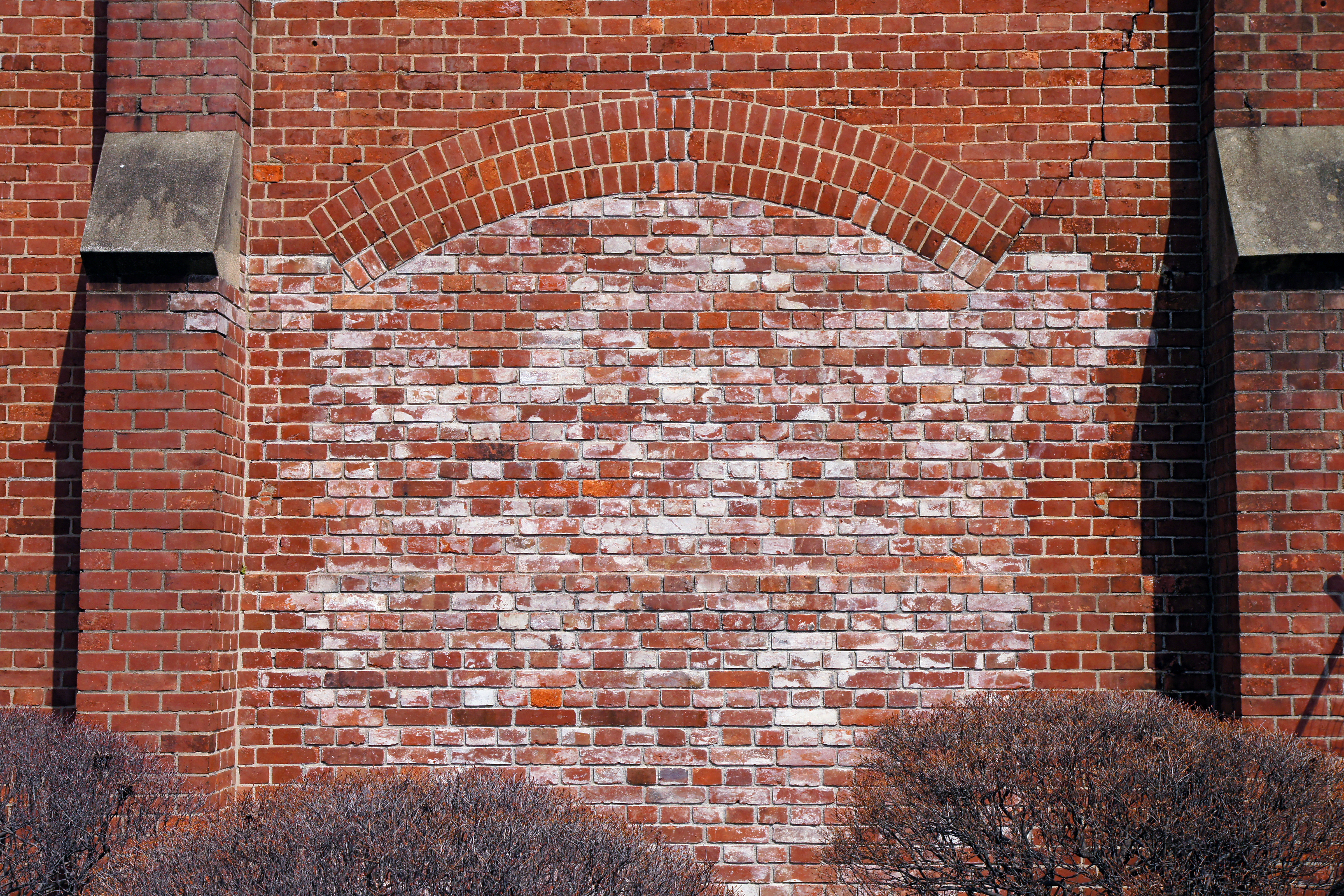 Sumoto Library / Sumoto Artisan Square in Sumoto, Hyogo prefecture, Japan.